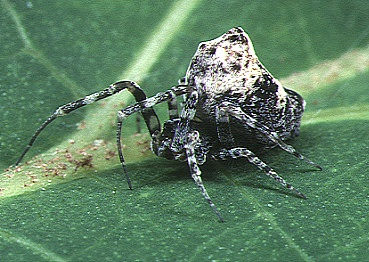 female Philoponella prominens from Okinawa.